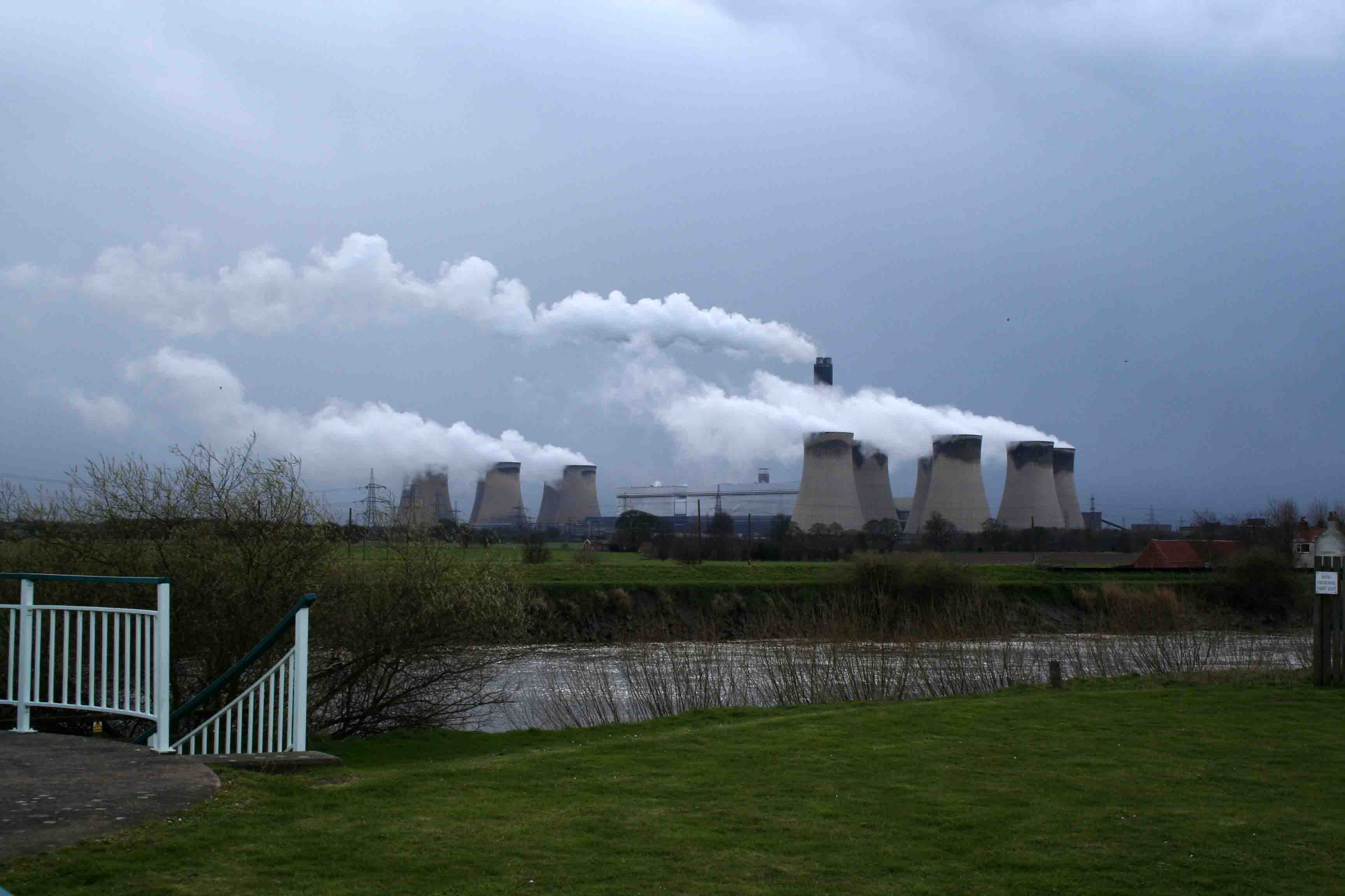 Drax Power Station, taken on a March day when the north wind was blowing sleet.Looking across the river Ouse from Barmby Tidal Barrage